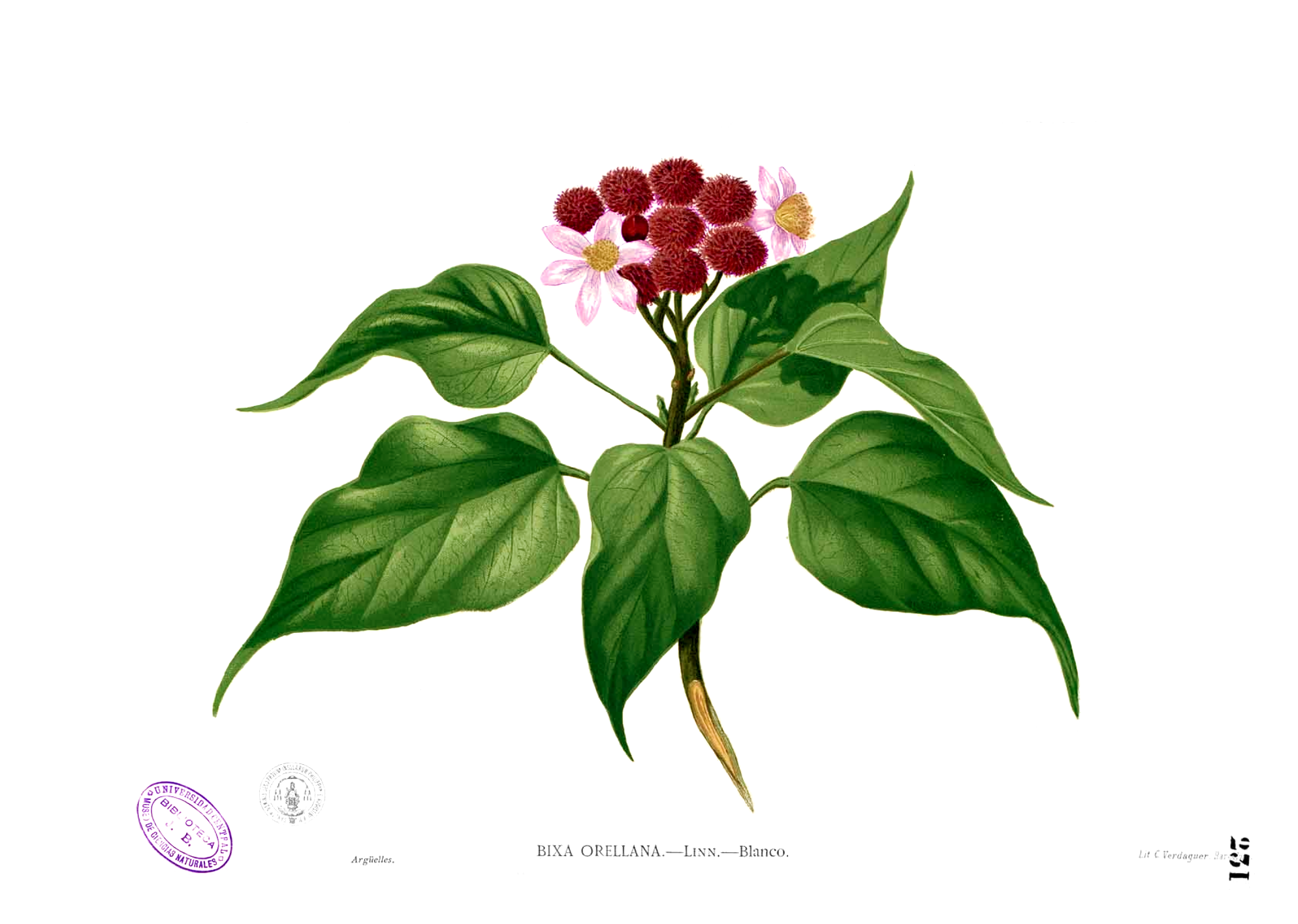 Bixa orellana Plate from book